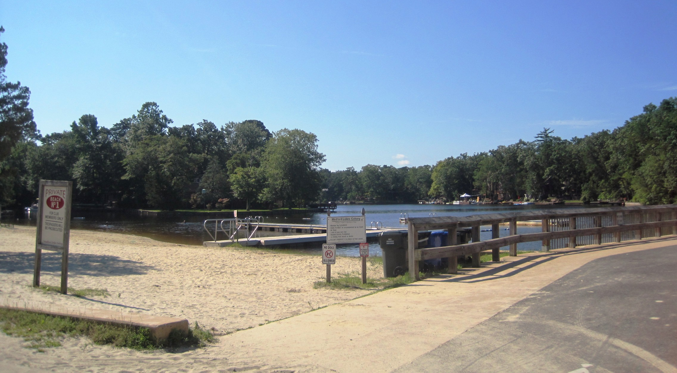 Photo showing Lower Aetna Lake in Medford Lakes, New Jersey. Photo taken looking south from Tabernacle Road (County Route 532.